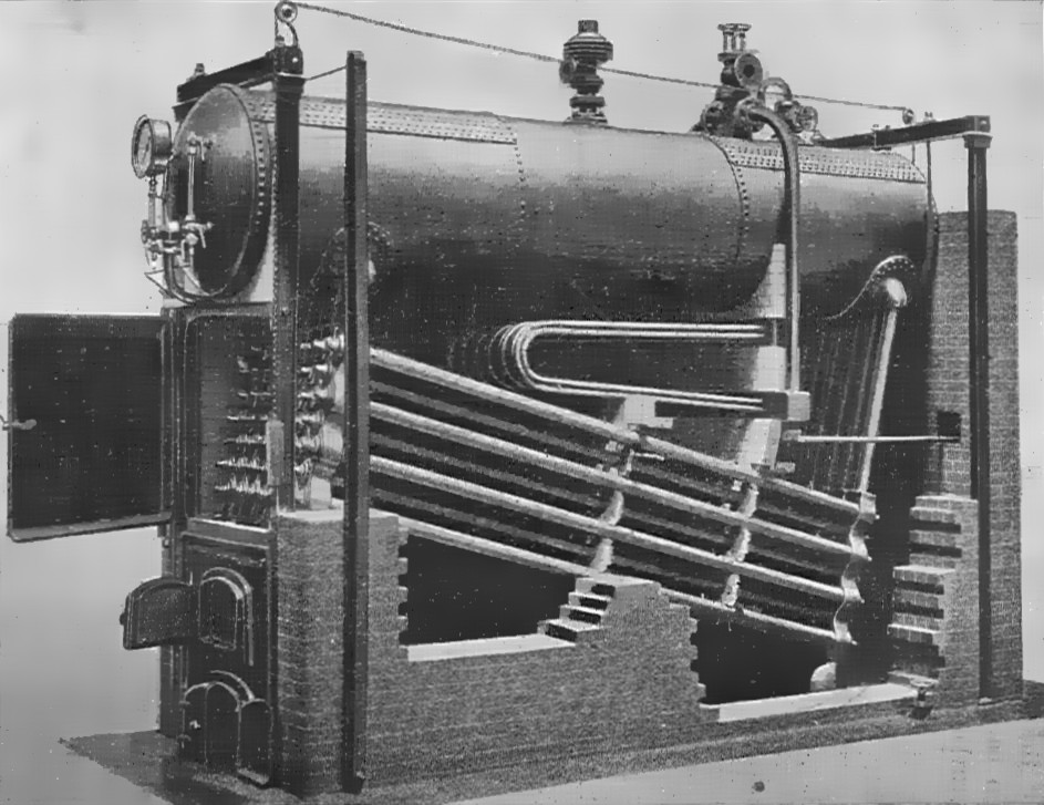 Babcock and Wilcox boiler (Heat Engines, 1913).jpg